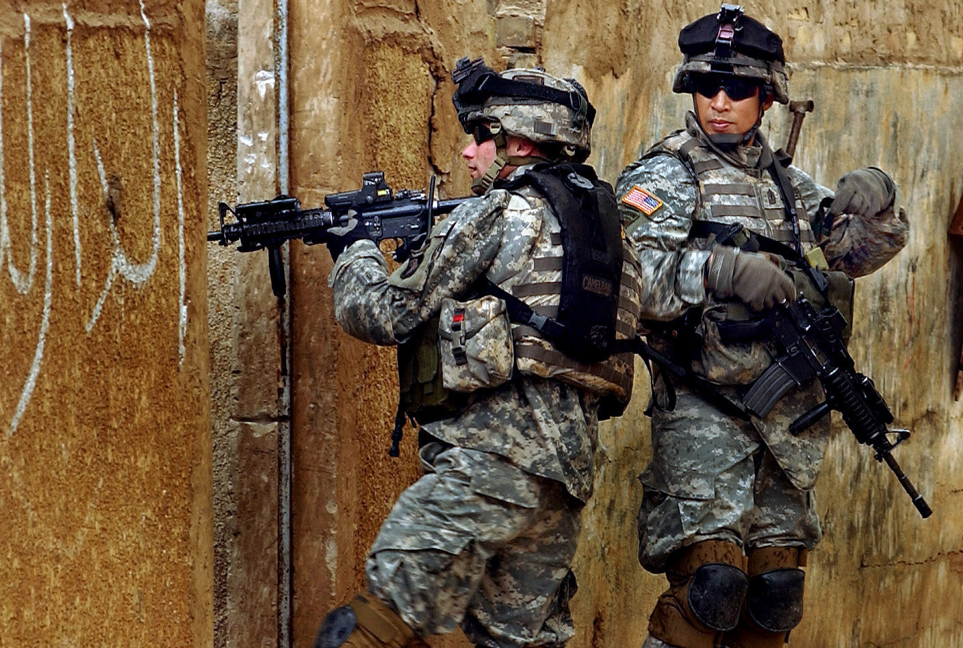 Cpl. Jared Jenkins and 1st. Sgt.Arthur Abiera, Apache Troop, 1st Squadron, 33rd Cavalry Regiment, 3rd Brigade Combat Team, 101st Airborne Division, search a home during a routine presence patrol on the outskirts of Sadr City, Iraq. U.S. Army photo by Staff Sgt.Russell Lee Klika